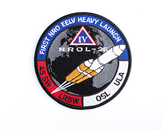 Launch patch of NROL-26 (USA 202)